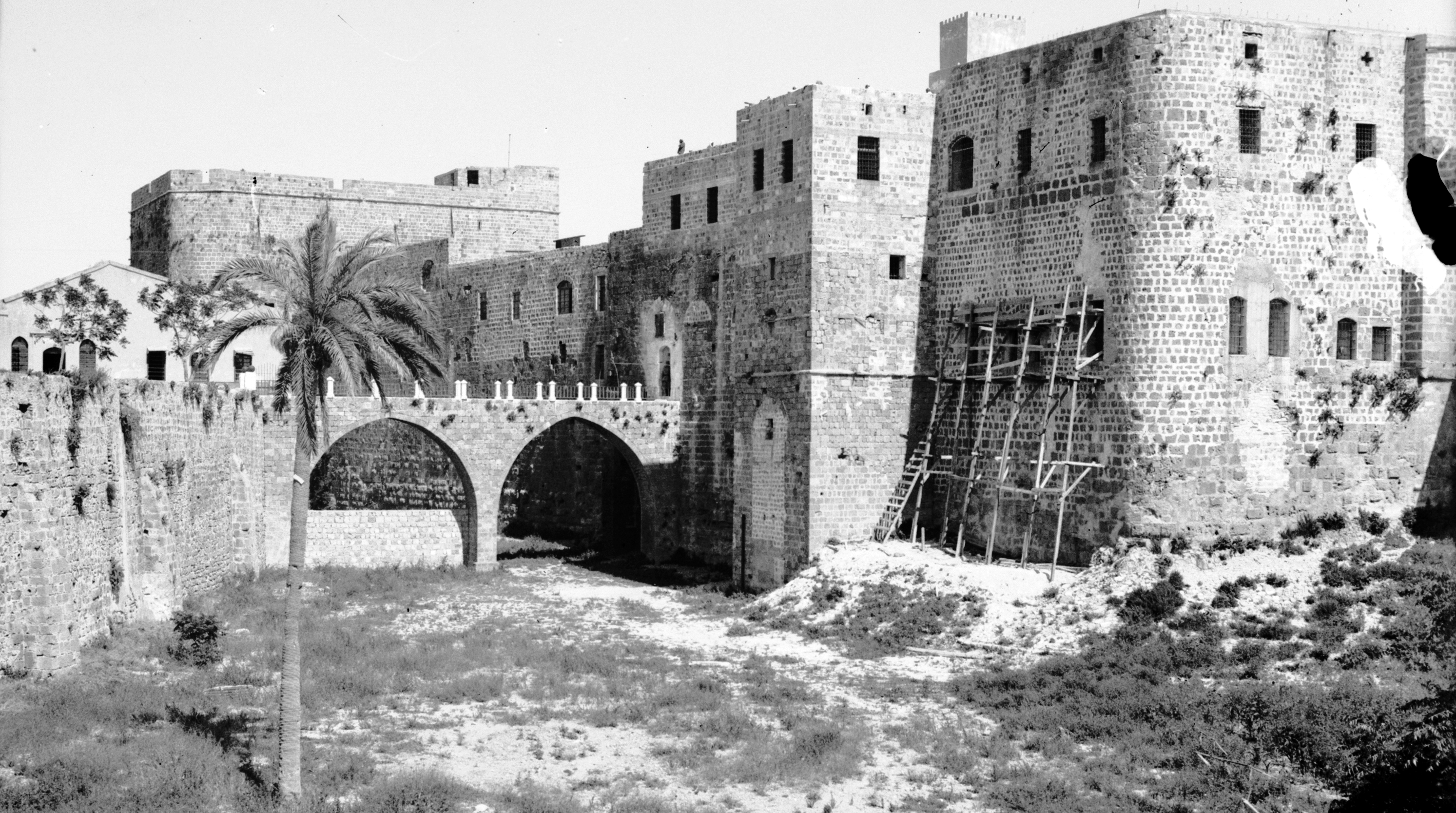 Akka (Acre, Accho). The castle moat. On north side